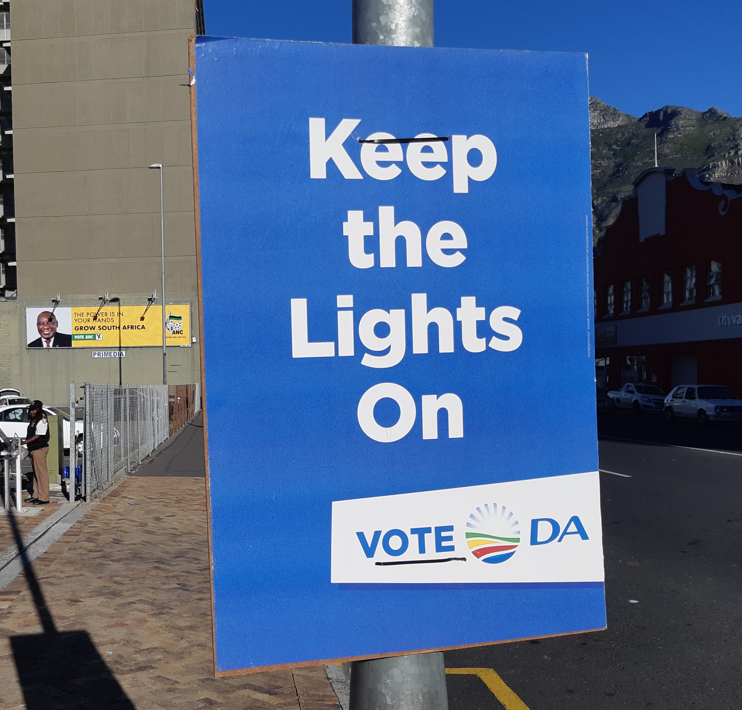 A Democratic Alliance (opposition party) poster in Cape Town stating "keep the lights on" in reference to the energy crisis affecting the country due to problems at the state owned electricity monopoly Eskom. An African National Congress banner can be seen in the background.